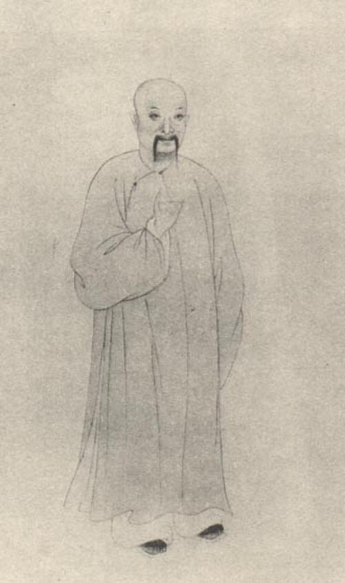 ZHU Xiaochun, politician and scholar of the Qing Dynasty.